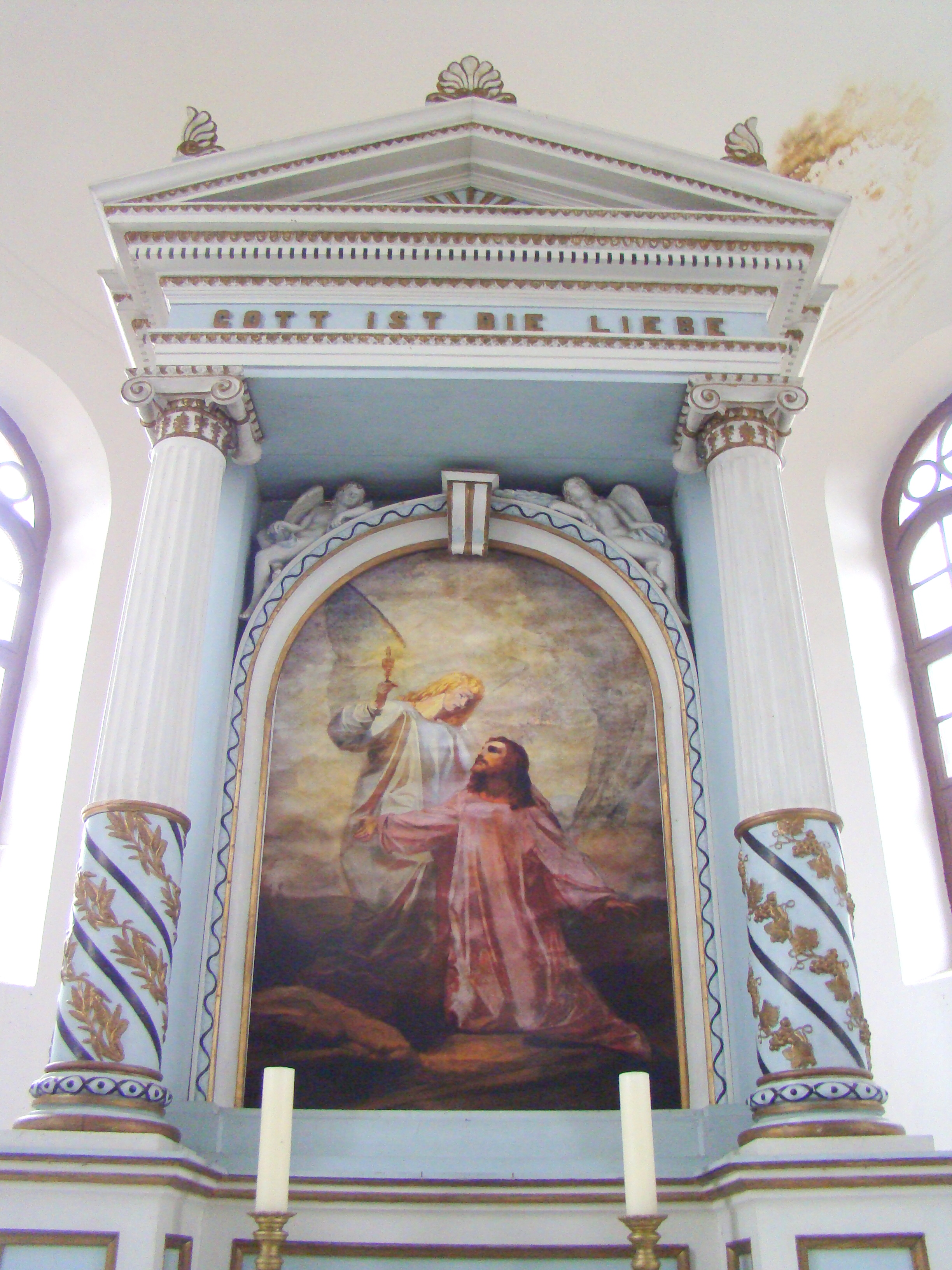 Lutheran church in Țigmandru, Mureș county, Romania